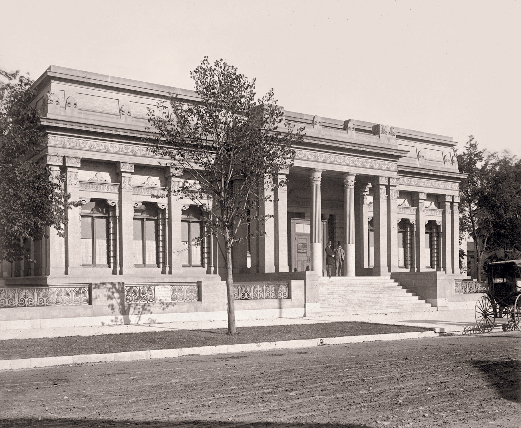 The original Layton Art Gallery, circa 1888, located at 758 N Jefferson St., the northeast corner of Mason Street & Jefferson Street. The building was vacated in 1957 and demolished in 1958.